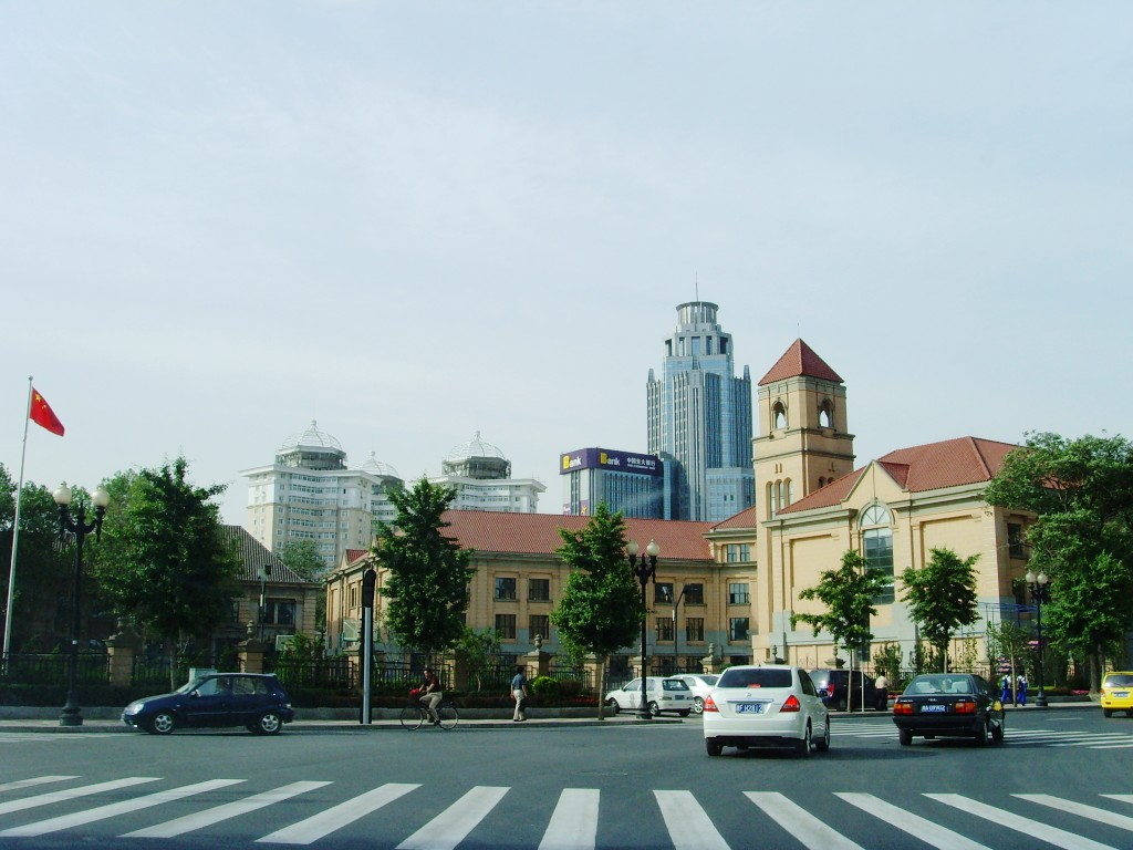 Tianjin 20 Zhongxue